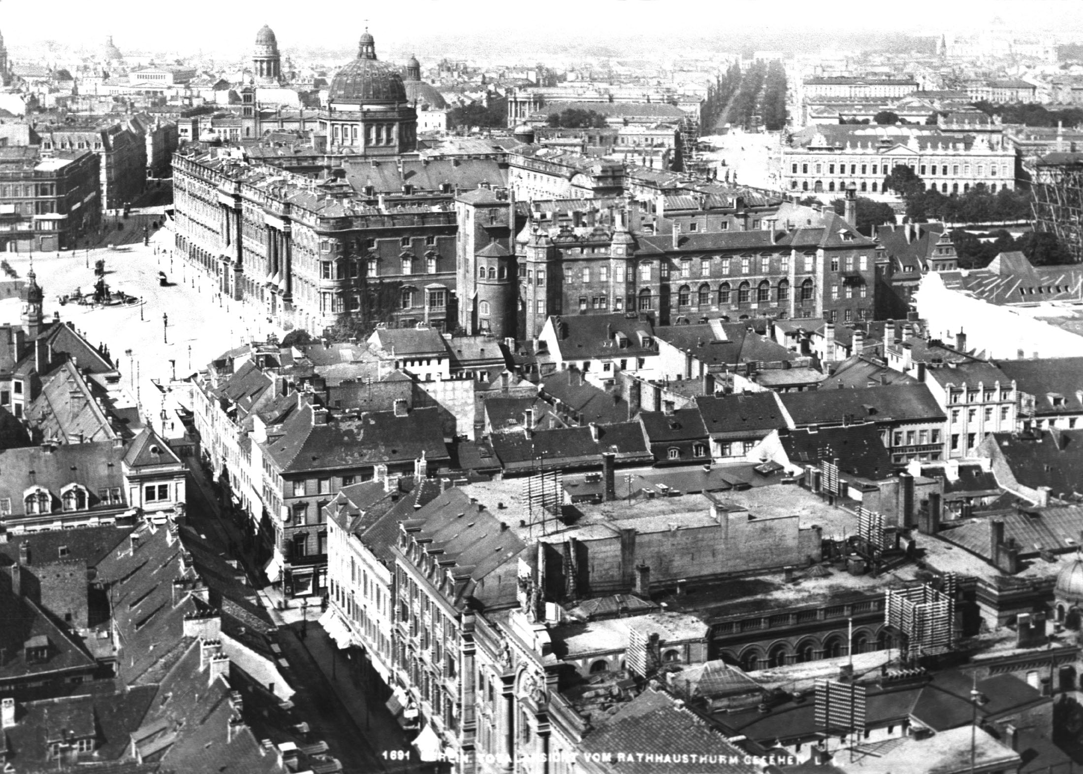 City of Berlin with the City Castle in 1891